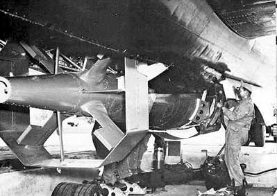 TARZON (ASM-A-1) guided bomb being loaded on a B-29 SUPERFORTRESS of the 19th Bomb Group.